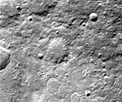 Clementine image from Map-A-Planet.